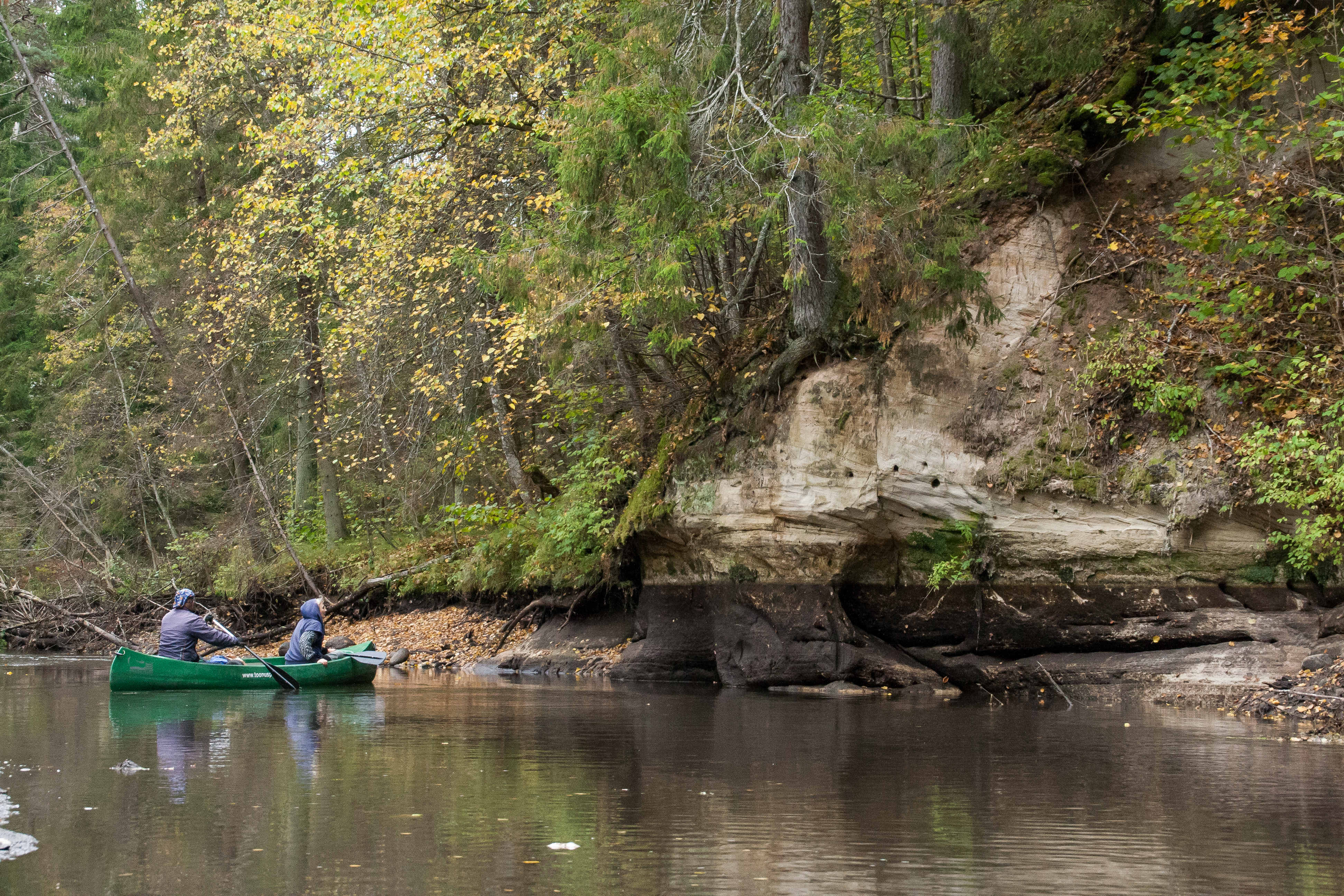 A sandstone cliff near Kiidjärve